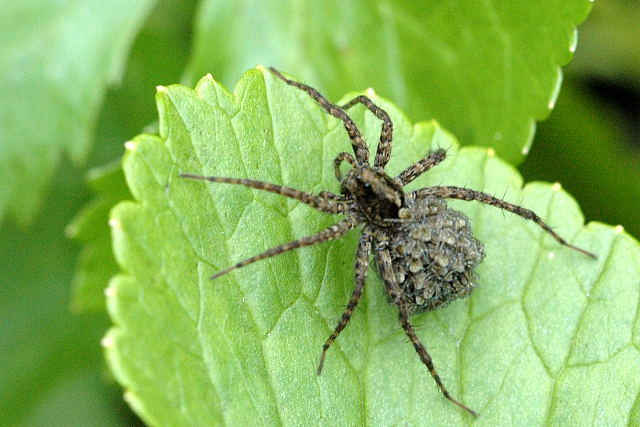 Pardosa hortensis with spiderlings, from Commanster, Belgian High Ardennes .